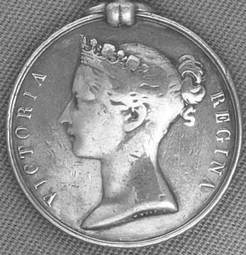 South Africa Medal 1877-1879 obverse